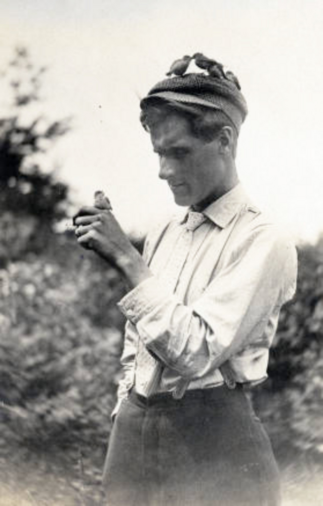 Finley, William, bird on cap, ca. 1908. Photograph from American Birds (1908), Oregon State University Archives.